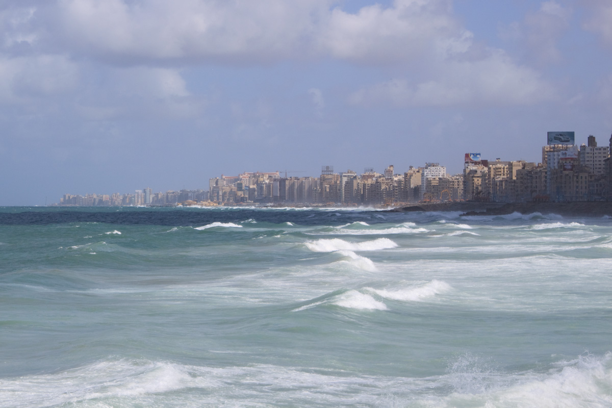 Alexandria Coastline on the Mediterranean Sea